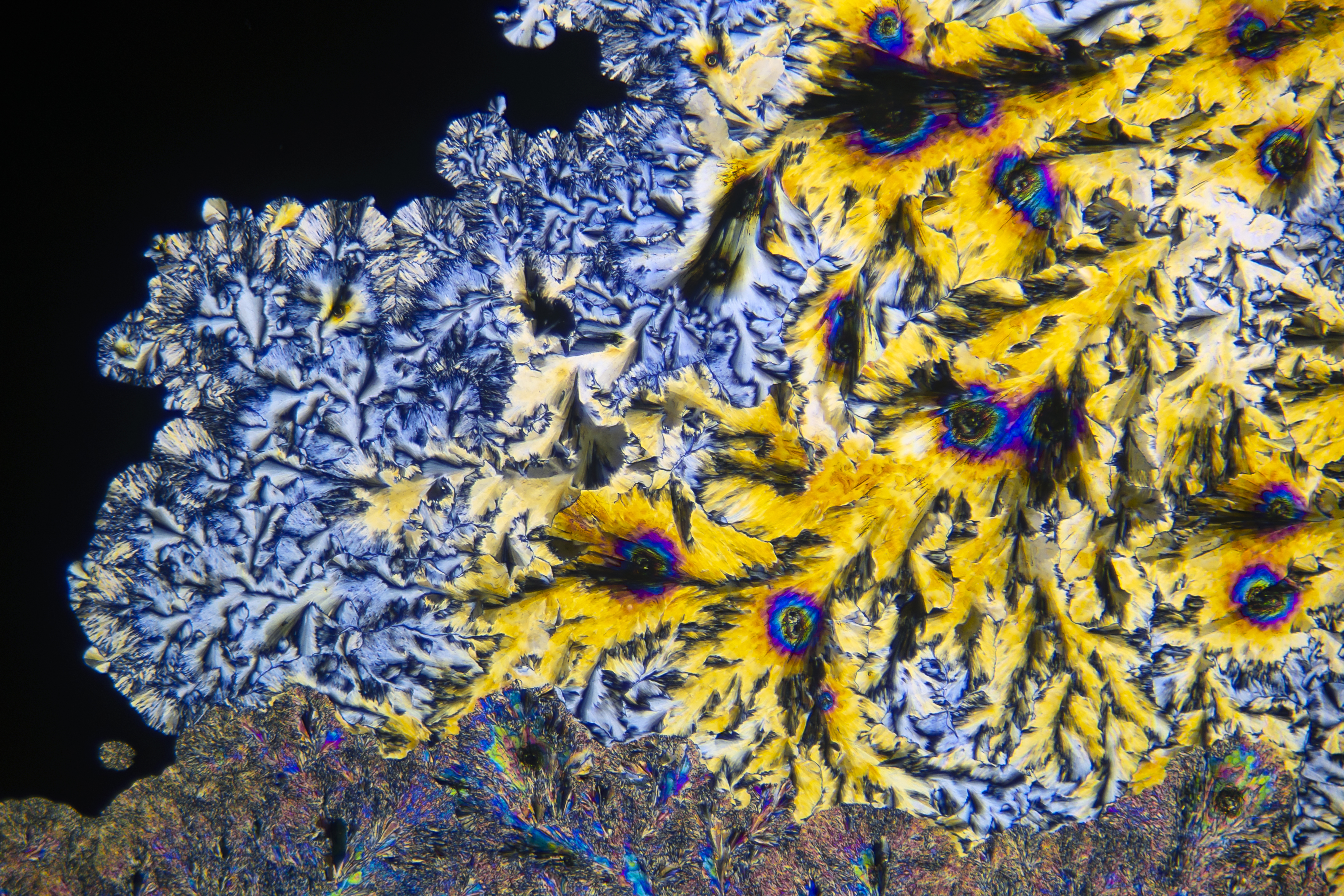 Paracetamol crystals (crystallized from an aqueous solution) under a microscope. Polarization. Crossed polarizers